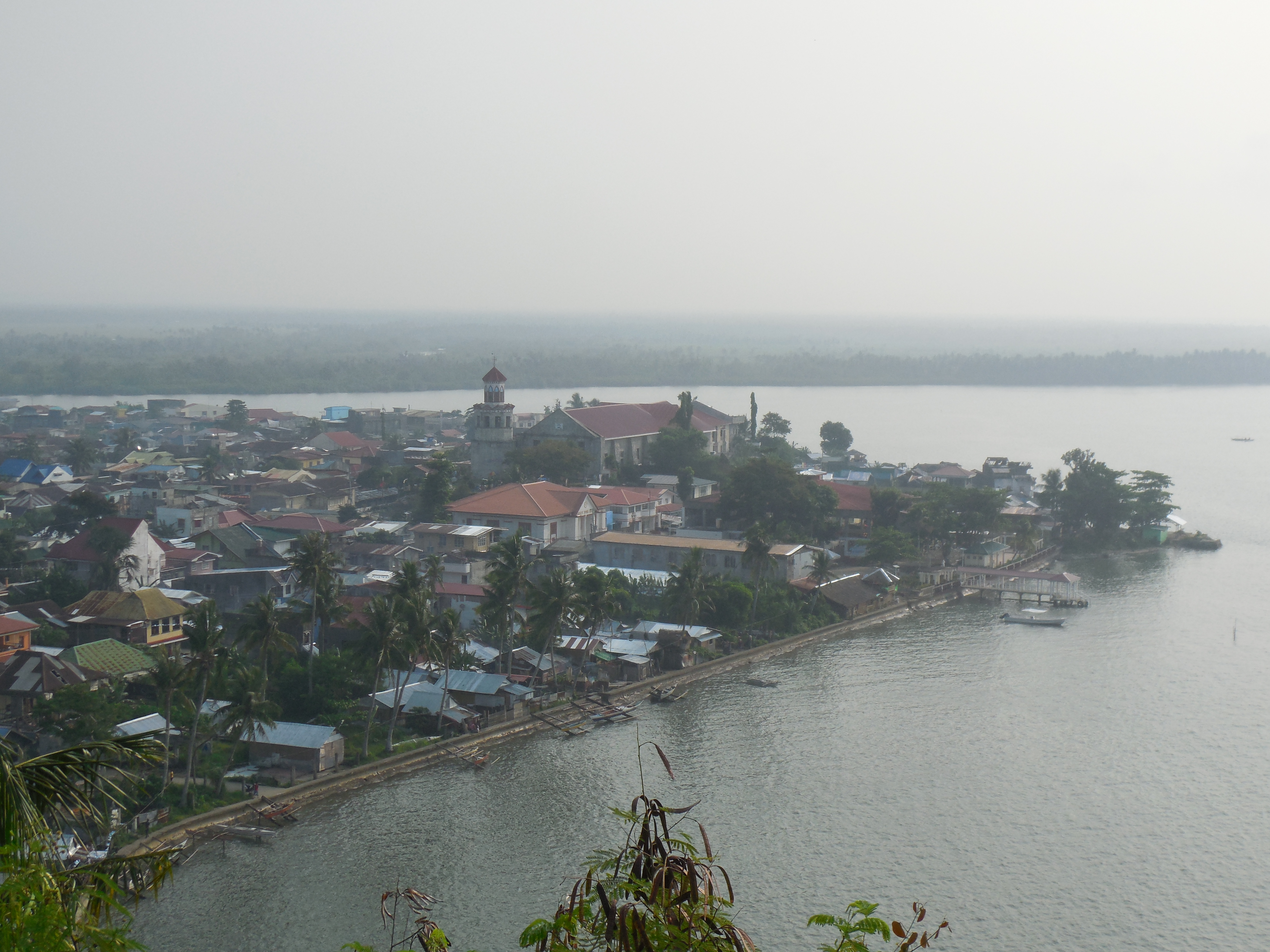 Bird's eye view of Basey, Samar from Guintolian Hill, facing east and showing the town center